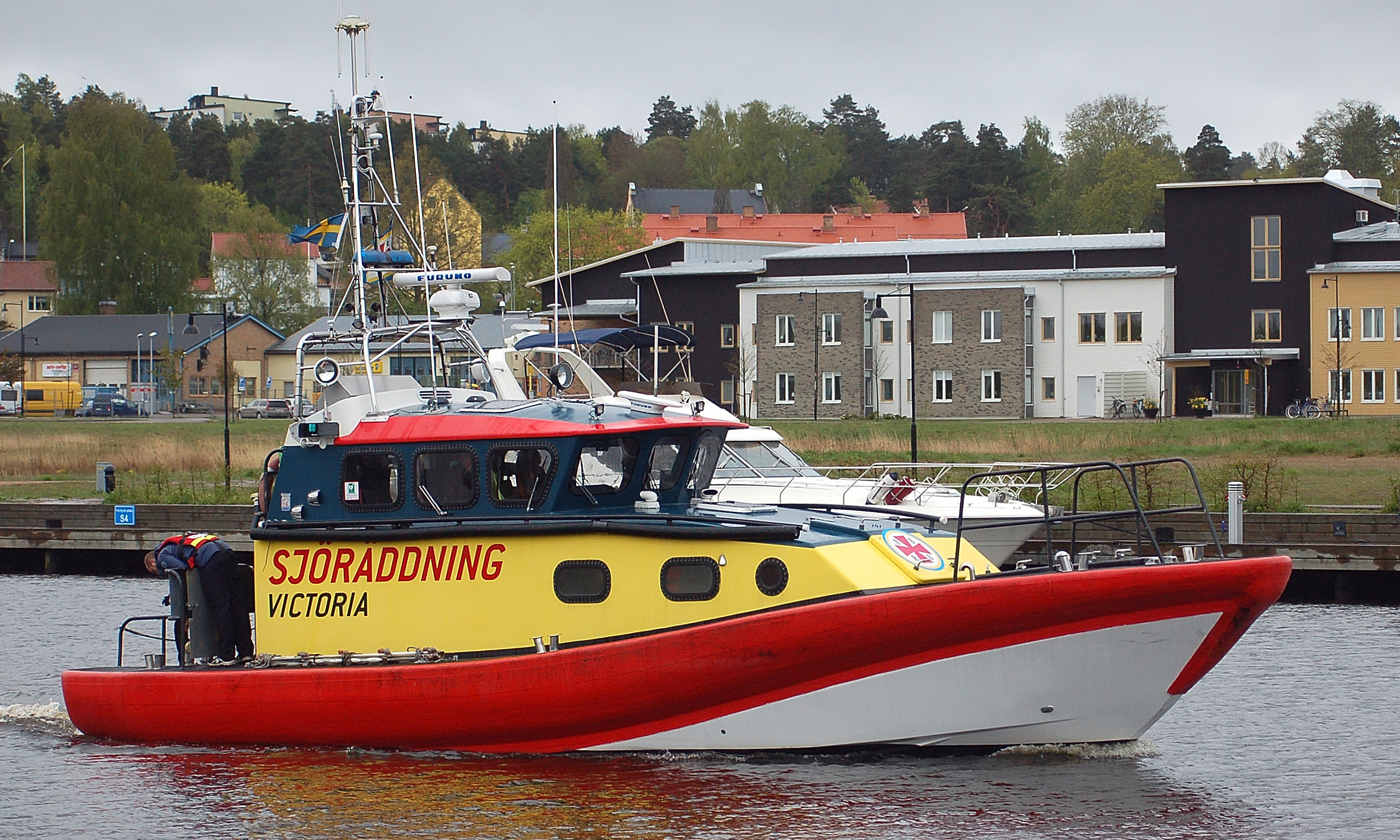 SSRS räddningsbåt Rescue Victoria. Swedish rescue vessel Victoria is stationened at Kapurja, Kristinehamn. She is one of the mainstay Victoria class rescue boats of SSRS, the Swedish Sea Rescue Society, water jet propulsed, 12 m long, deplacement of 12 tons, 36 knots maximum speed..